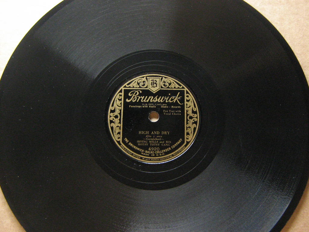 Irving Mills & His Hotsy Totsy Gang: High and Dry